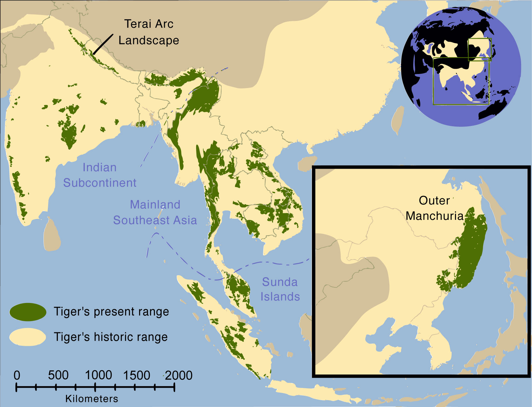 Historical range of tiger is shown in pale yellow and current range (2006) in green. Also added are national borders.